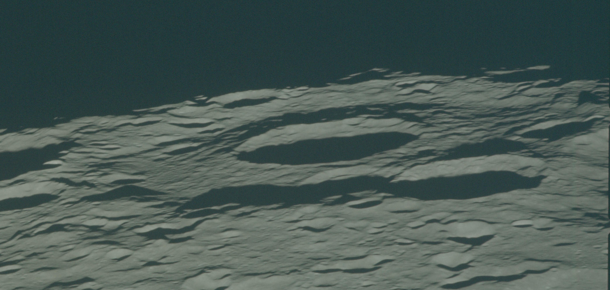 Oblique view of Mandel'shtam crater, on the far side of the moon.